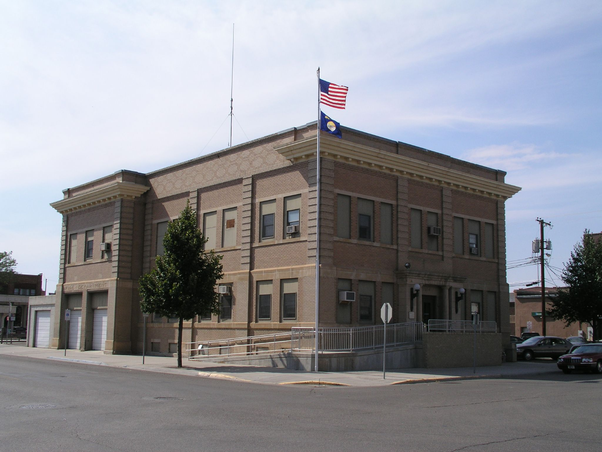 City Hall of Miles City, Montana, USA